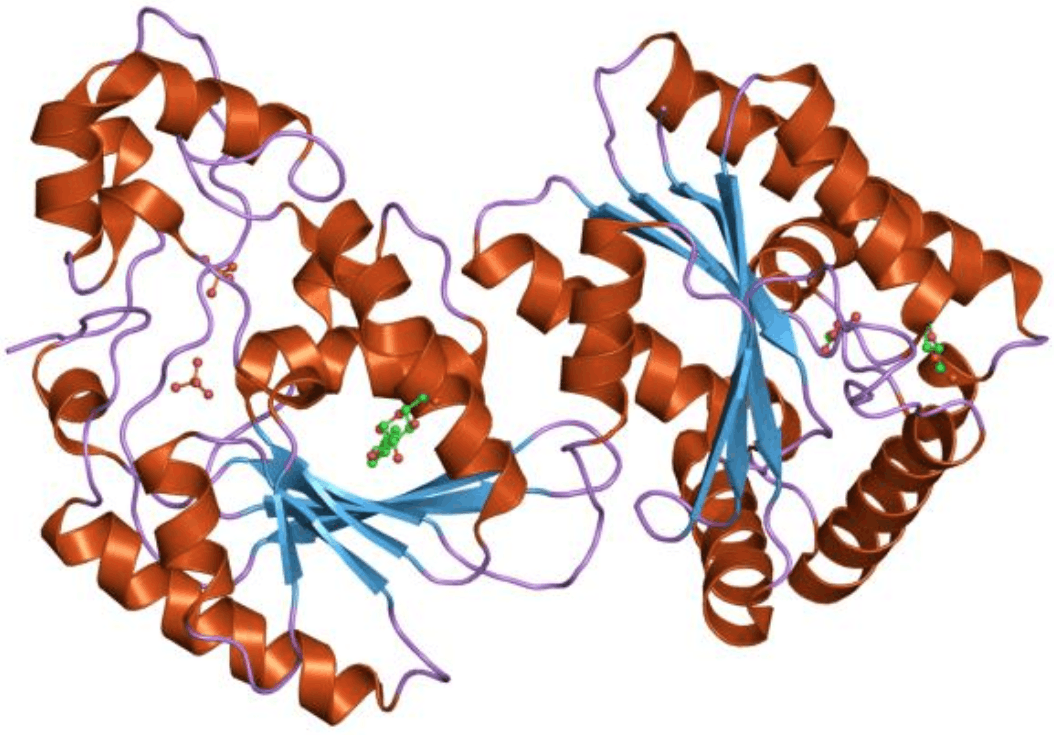 Created via PYMOL with PDB code 3bif.